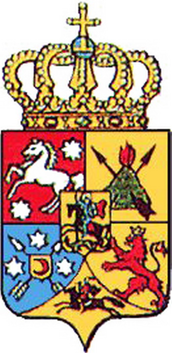 The coat of arms of the titular Kingdom of Georgia, part of the Russian Empire.